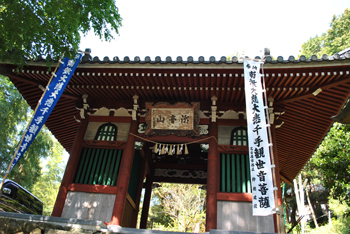 taikouji